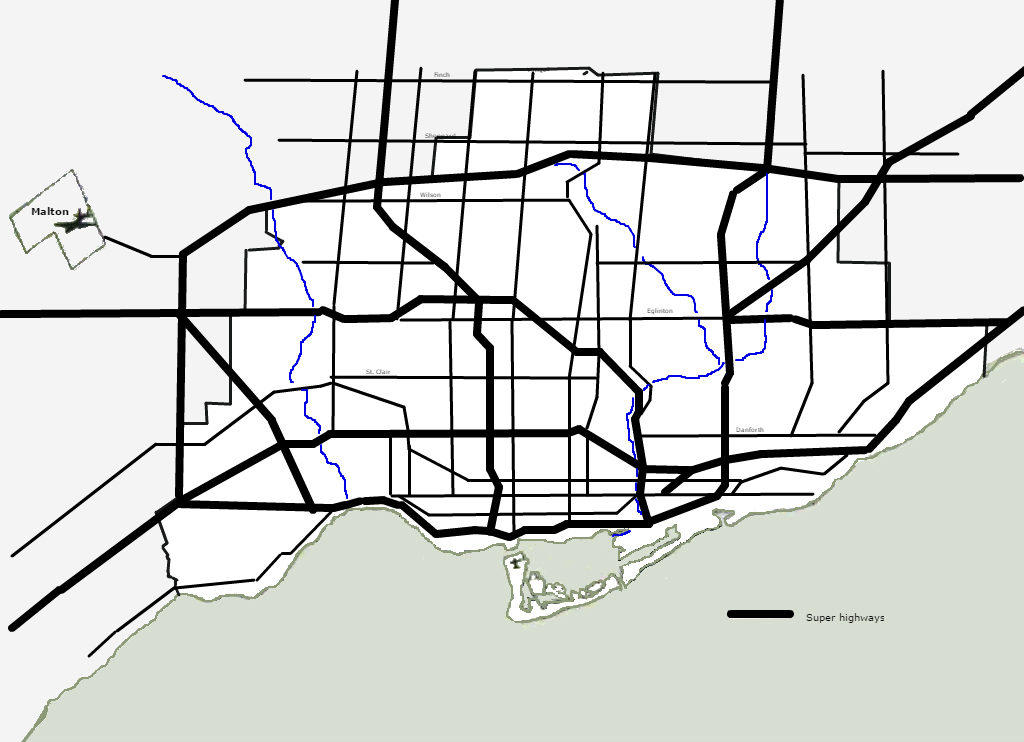 This is my depiction of the 1942 highway plan by the Toronto Planning Board